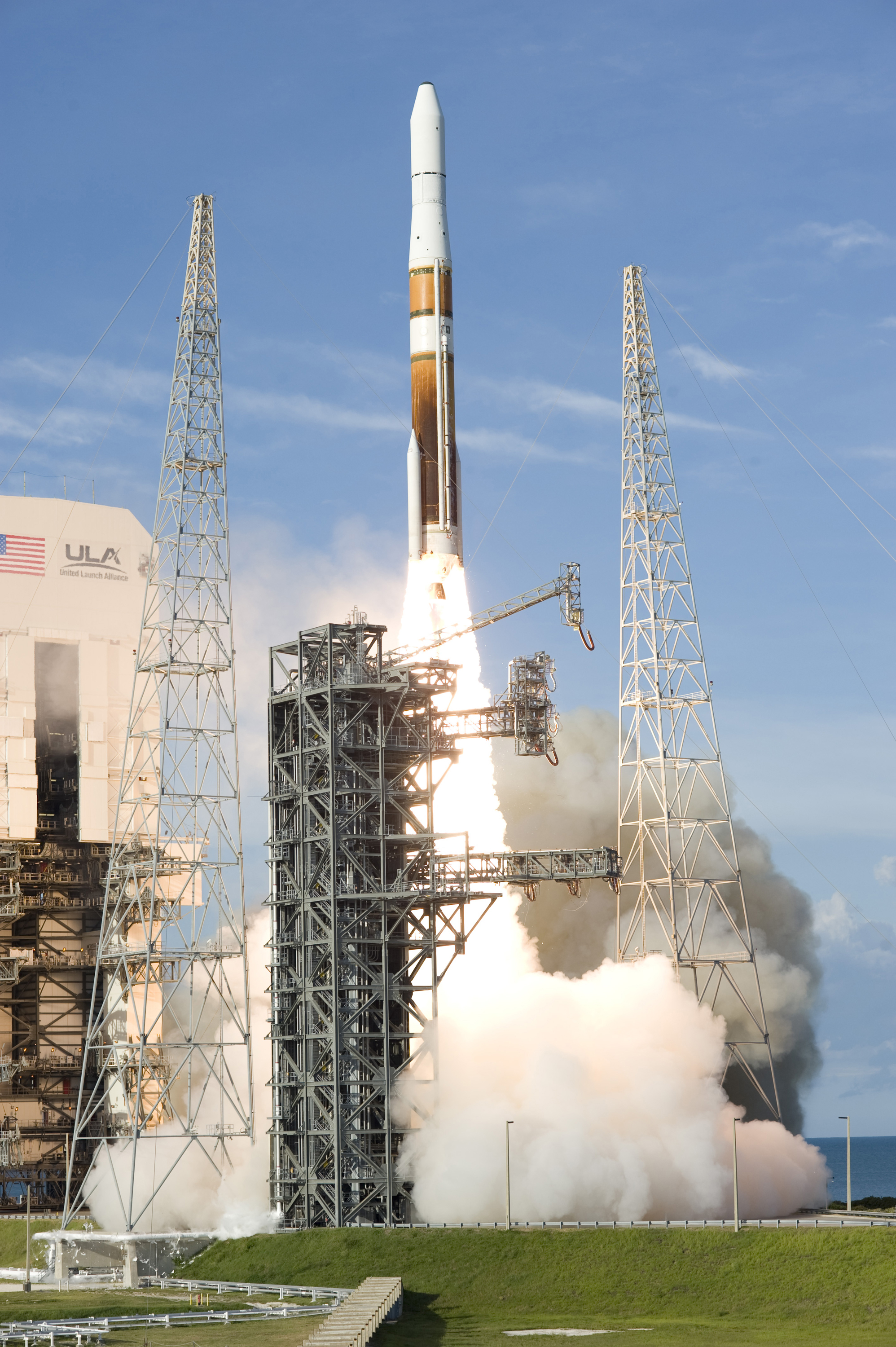 With smoke and steam rolling across the launch pad, a Delta IV rocket begins its climb into the sky with the GOES-O satellite aboard. Liftoff was at 6:51 p.m. EDT from Launch Complex 37 at Cape Canaveral Air Force Station in Florida. The first attempt to launch GOES-O, on June 26, was scrubbed due to thunderstorms in the vicinity of Cape Canaveral. The latest Geostationary Operational Environmental Satellite, GOES-O was developed by NASA for the National Oceanic and Atmospheric Administration, or NOAA. Each of the GOES satellites continuously provides observations of 60 percent of the Earth including the continental United States, providing weather monitoring and forecast operations as well as a continuous and reliable stream of environmental information and severe weather warnings. Once in orbit, GOES-O will be designated GOES-14, and NASA will provide on-orbit checkout and then transfer operational responsibility to NOAA.